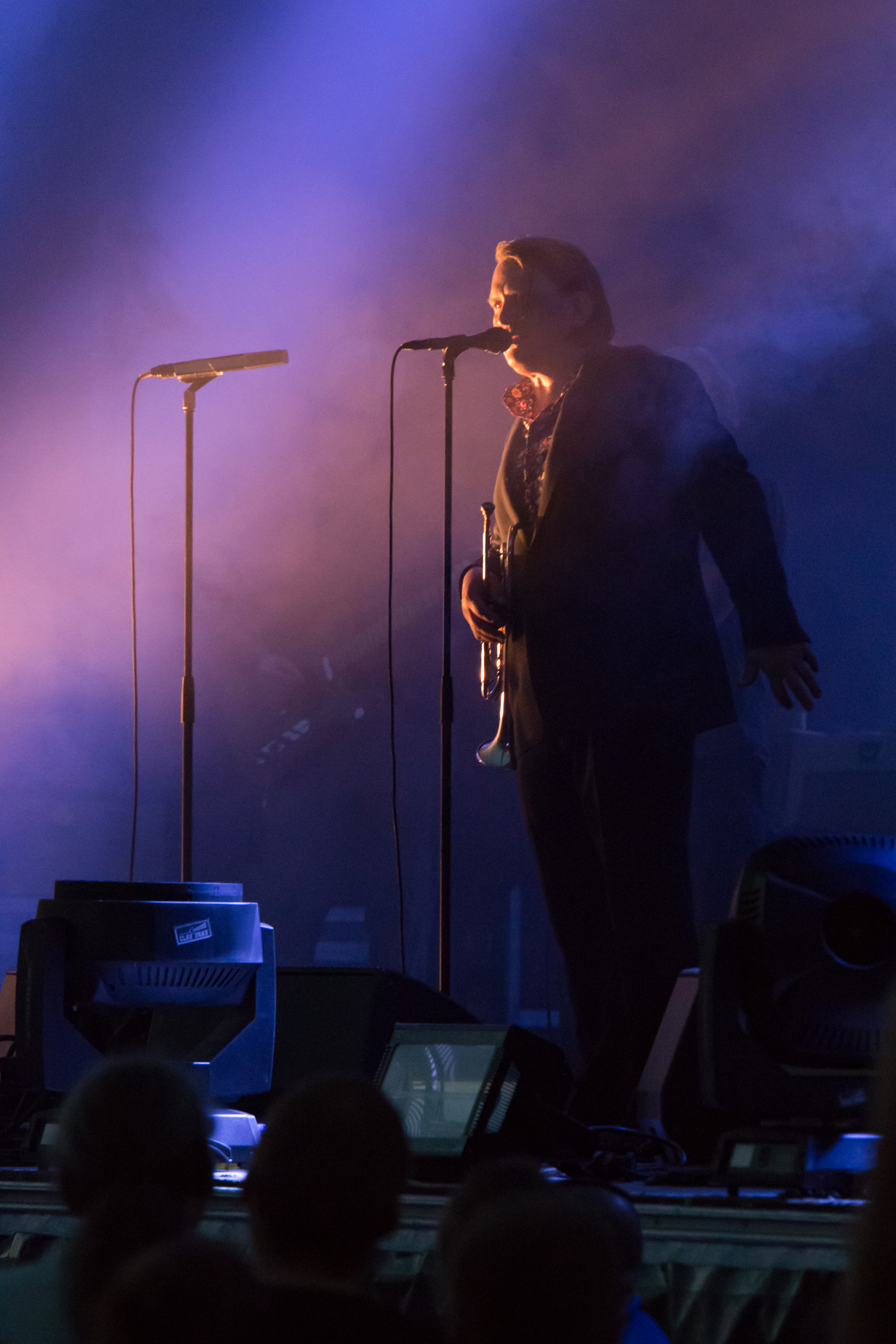 Element of Crime, Folklore 015| festival at theSchlachthof in Wiesbaden